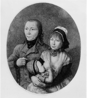 Johannes Bückler (frz. Jean Buckler), genannt Schinderhannes oder Robin Hood vom Hunsrück, (* 1777 (evtl. auch 1778 oder 1779) in Miehlen, Taunus; † 21. November 1803 in Mainz and his wife and daughter.